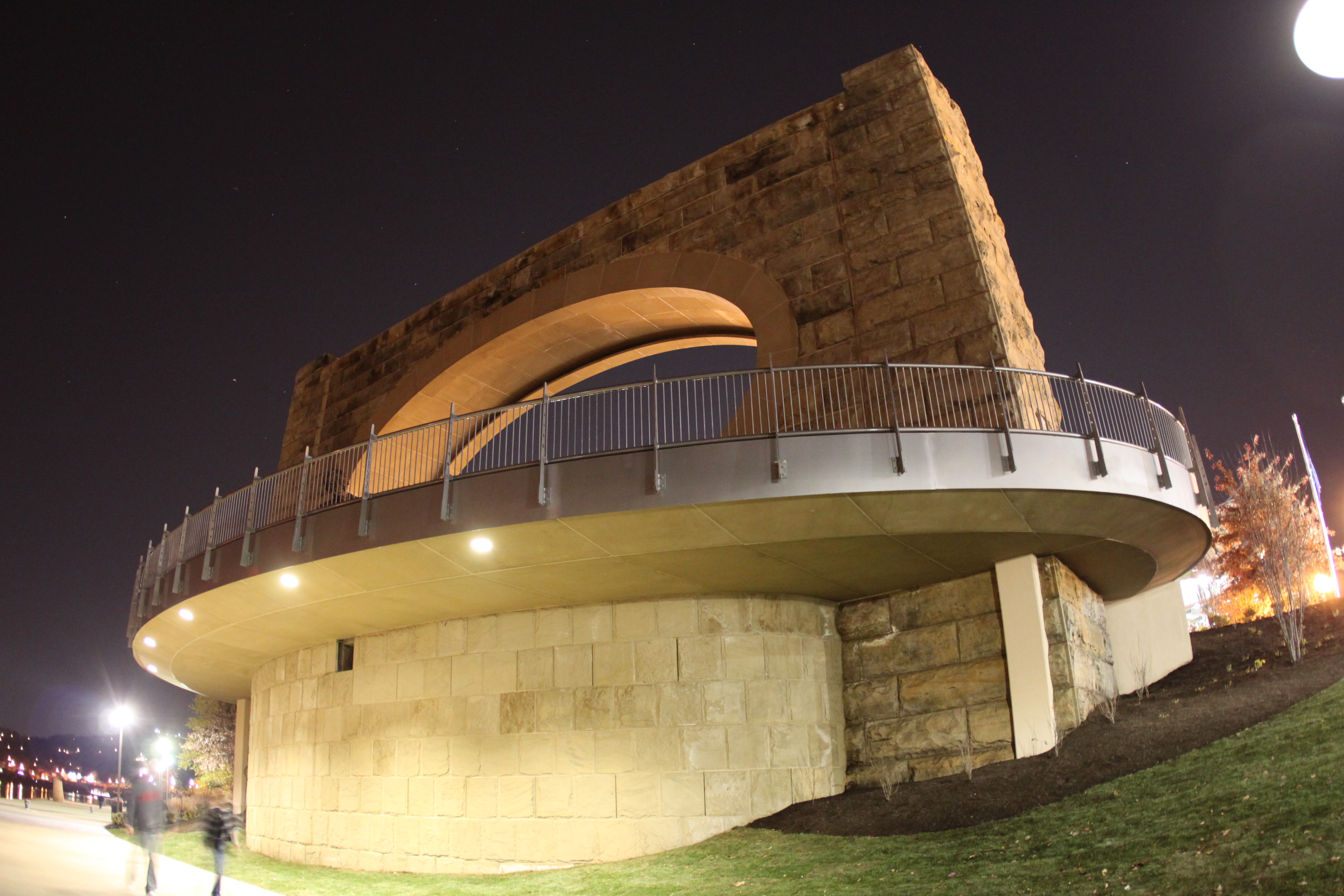 Front of Tribute to Children monument at night